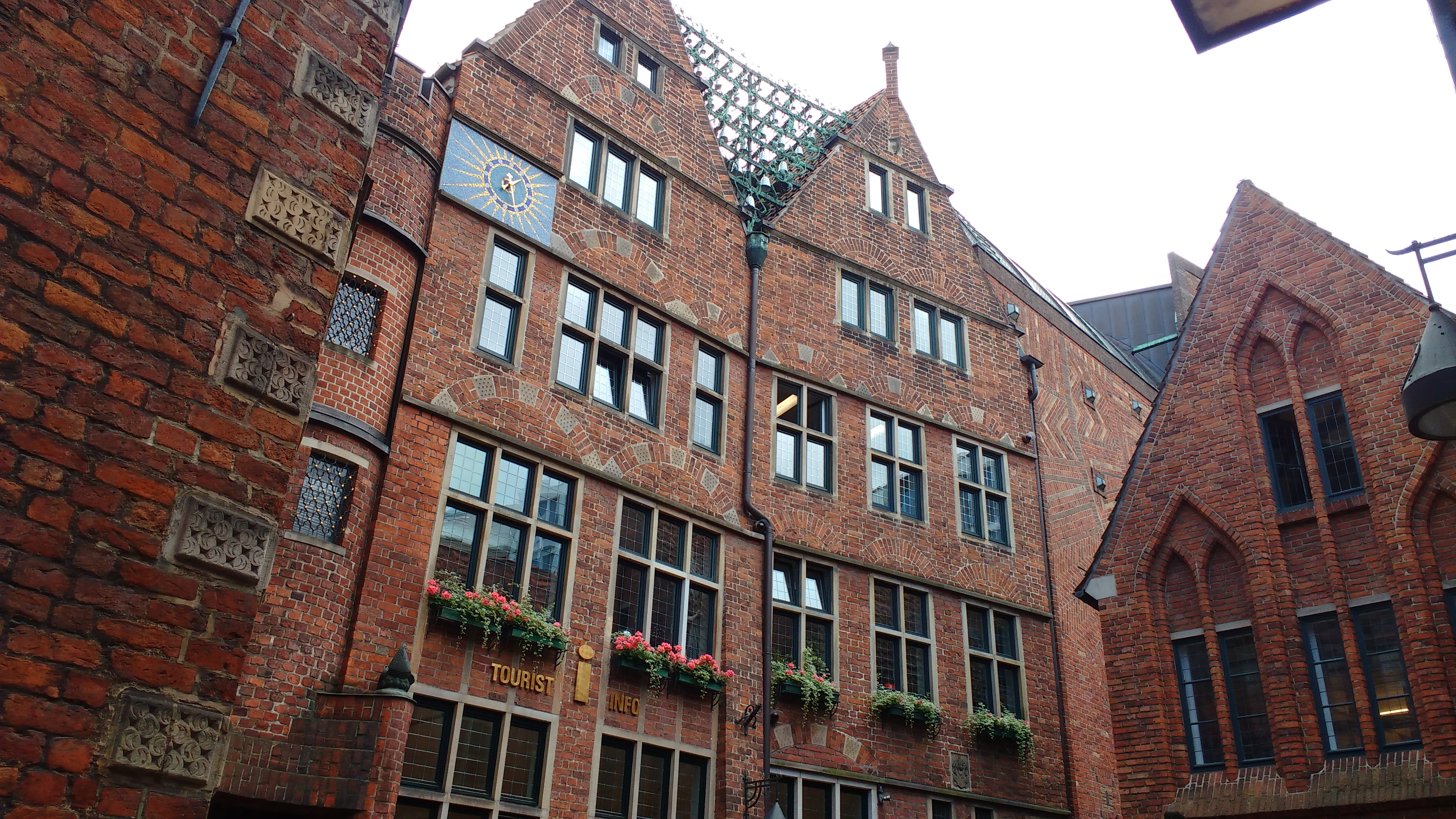 Ruelle dans le centre de brême